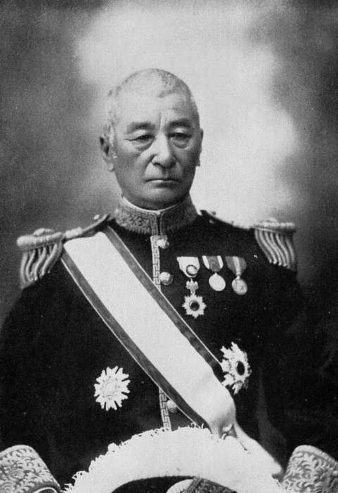 Masayoshi Tsutsumi